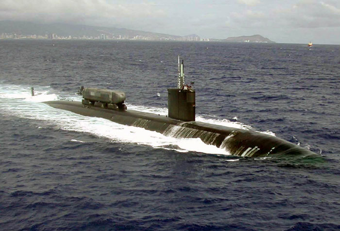 The Los Angeles-class submarine, USS Greeneville (SSN-772), with the Advanced SEAL Delivery System attached.